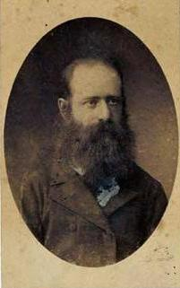 Jewish writer Moshe Leib Lilienblum when he was young